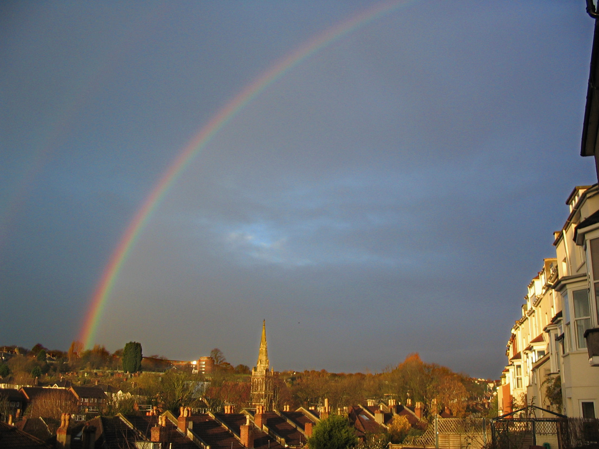 A rainbow over Redland in Bristol.